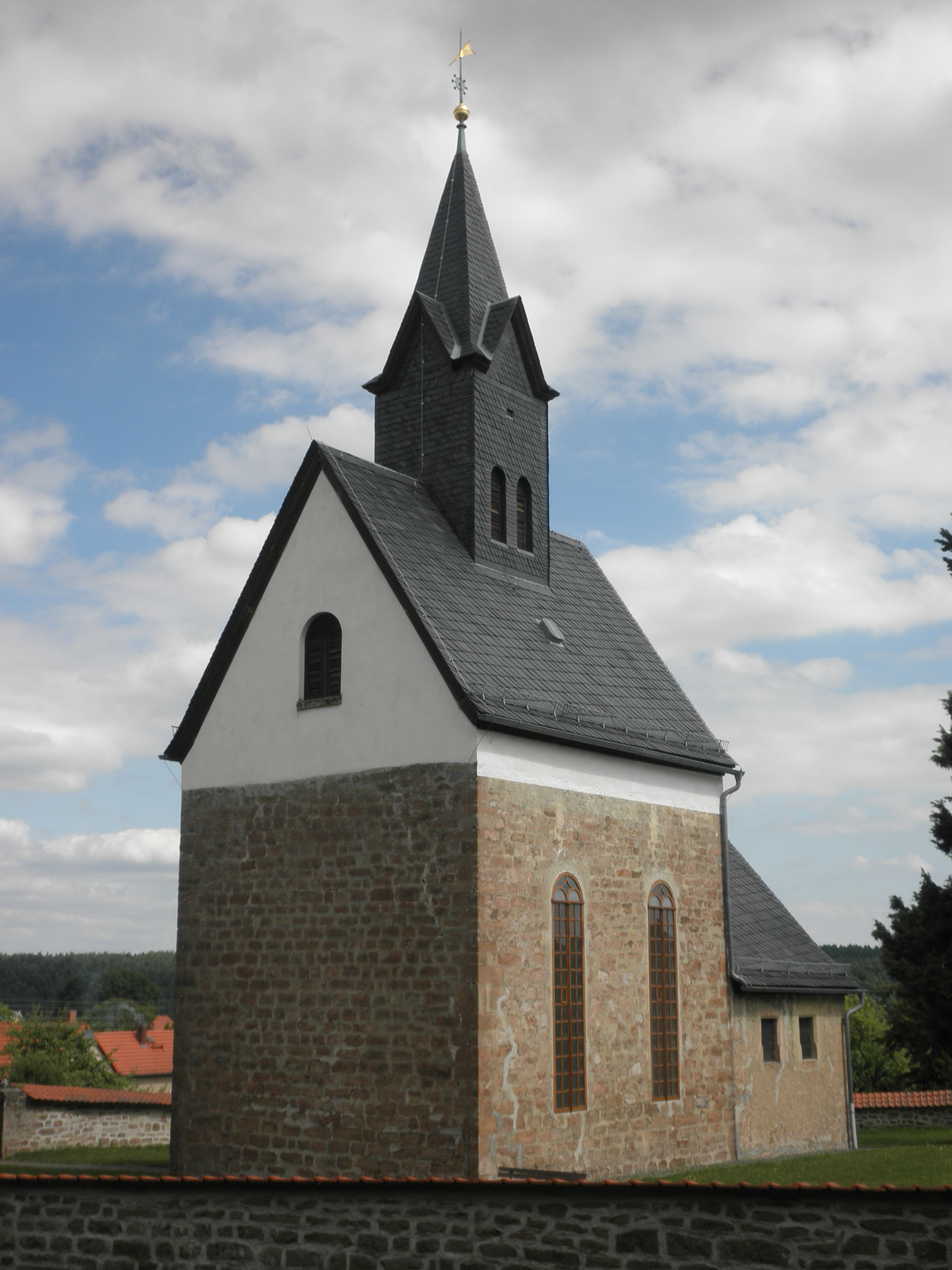 Church in Zwackau in Thuringia